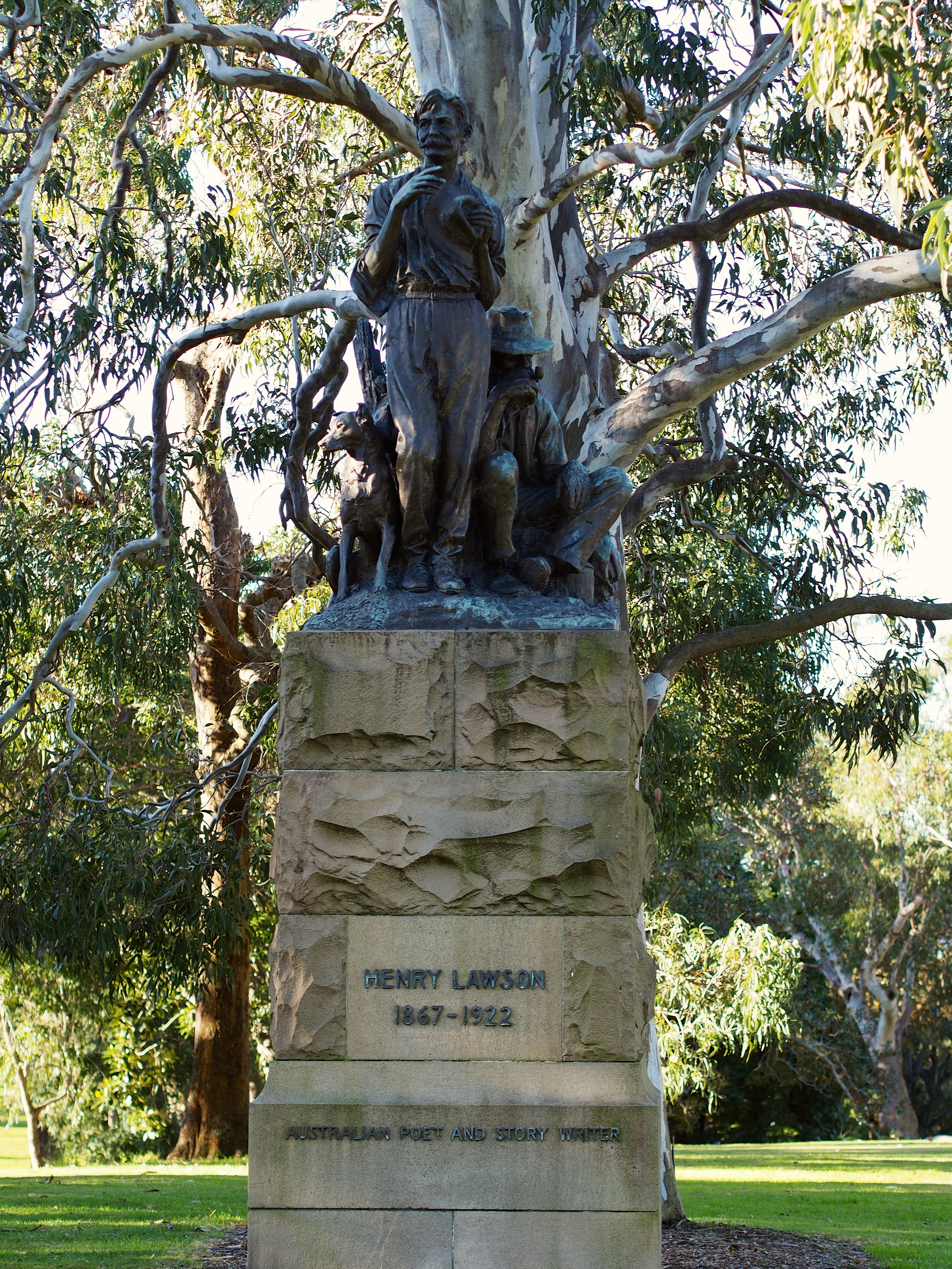 Monument depicting Henry Lawson, Sydney, Australia